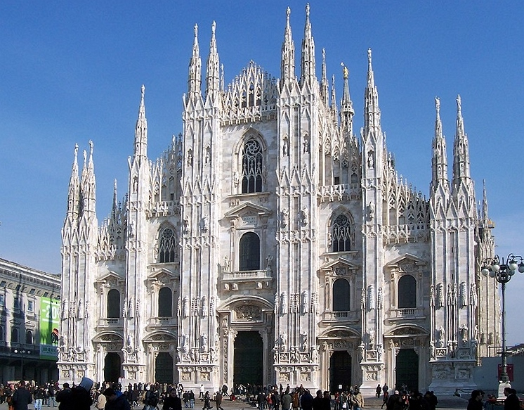 Facade of the Cathedral of Milan, Italy, in february 2009, after its cleaning.